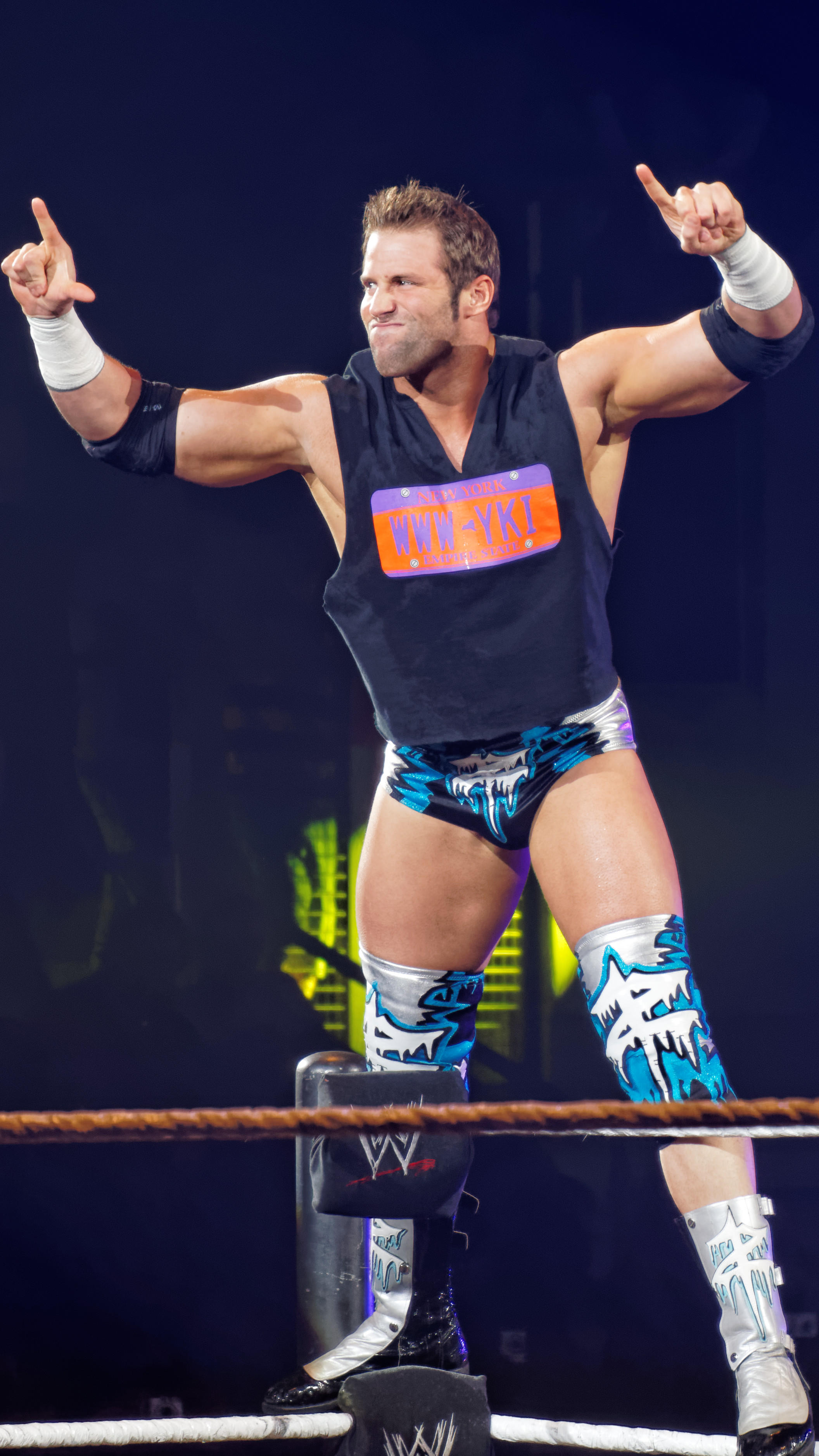 Zack Ryder posing at a WWE live event on May 22, 2014.